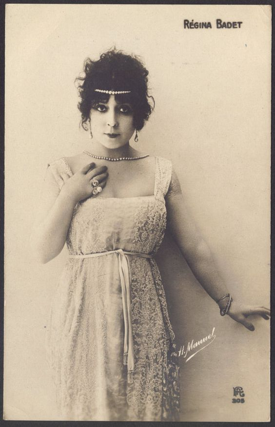 Henri Manuel (24 April 1874, Paris – 11 September 1947, Neuilly-sur-Seine) was a Parisian photographer who served as the official photographer of the French government from 1914 to 1944.